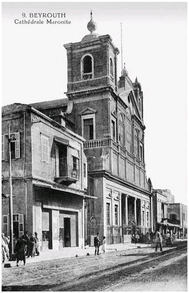 Early 20th century postcard of Beirut showing the Saint George Maronite Cathedral. Image taken by J. Deychamps, a frenchman from Beziers.